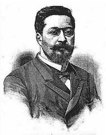 Portrait du philosophe et homme politique français Auguste Burdeau